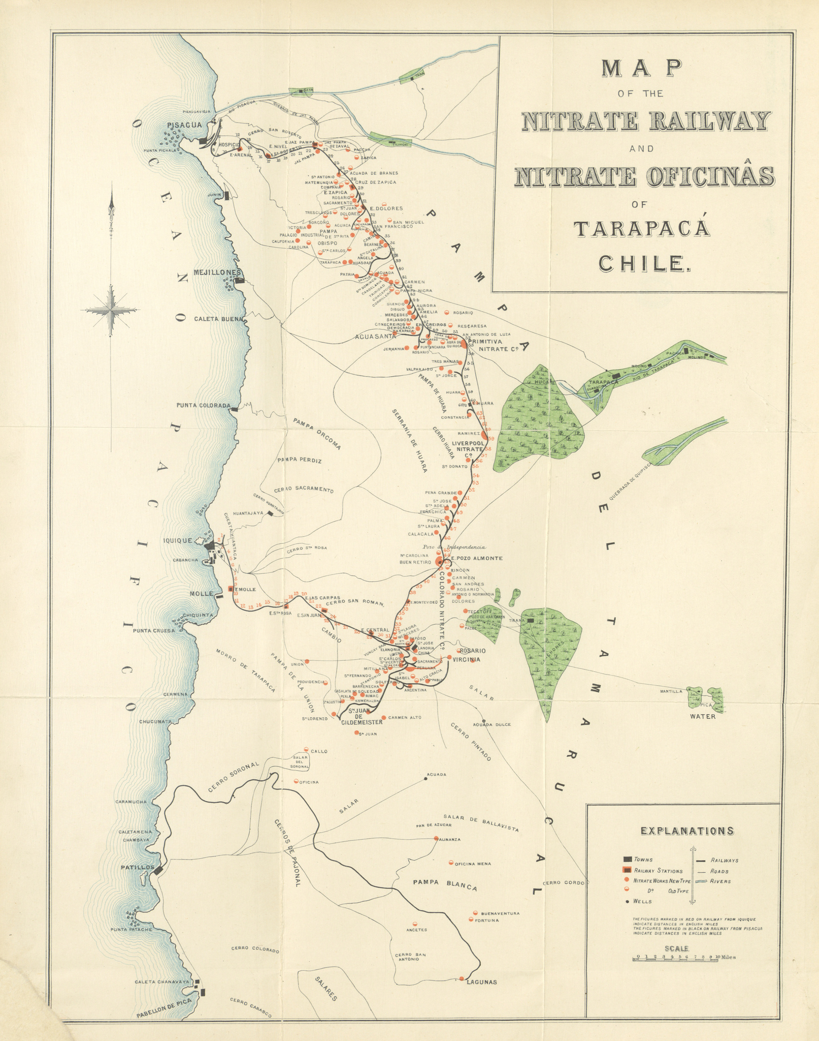 Image taken from: Title: "A Visit to Chile and the nitrate fields of Tarapacá ... With illustrations by Mr. M. Prior" Author: Russell, William Howard - Sir Contributor: PRIOR, Melton. Shelfmark: "British Library HMNTS 10480.eee.26." Page: 24 Place of Publishing: London Date of Publishing: 1890 Publisher: Virtue & Co. Issuance: monographic Identifier: 003195064 Note: The colours, contrast and appearance of these illustrations are unlikely to be true to life. They are derived from scanned images that have been enhanced for machine interpretation and have been altered from their originals. Following this or the link above will take you to the British Library's integrated catalogue. You will be able to download a PDF of the book this image is taken from, as well as view the pages up close with the 'itemViewer'. Click on the 'related items' to search for the electronic version of this work. Click here to see all the illustrations in this book and click here to browse other illustrations published in books in the same year. Please click on the tags shown on the right-hand side for other ways to browse the illustrations.